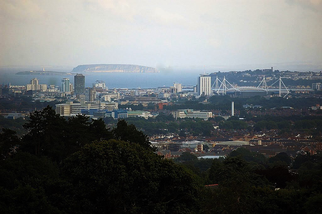 Looking over Cardiff from the North. Cardiff city centre sits in the foreground, the islands of Flat Holm and Steep Holm lie in the Bristol Channel while the coast of Somerset is faintly visible on the horizon.